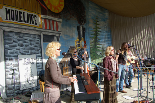 Picture of Czech folk music group Zrcadla CZ at Mohelnický dostavník (country and folk festival).